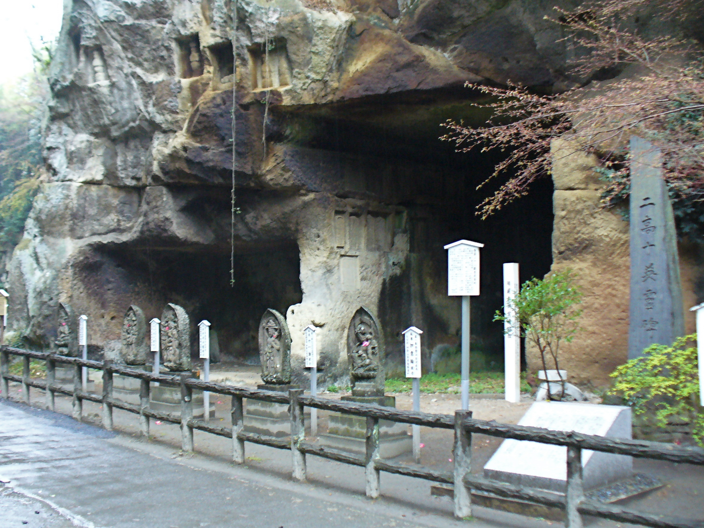 This is a photograph of the caves at Zuigan-ji temple in Mastushima, Japan.